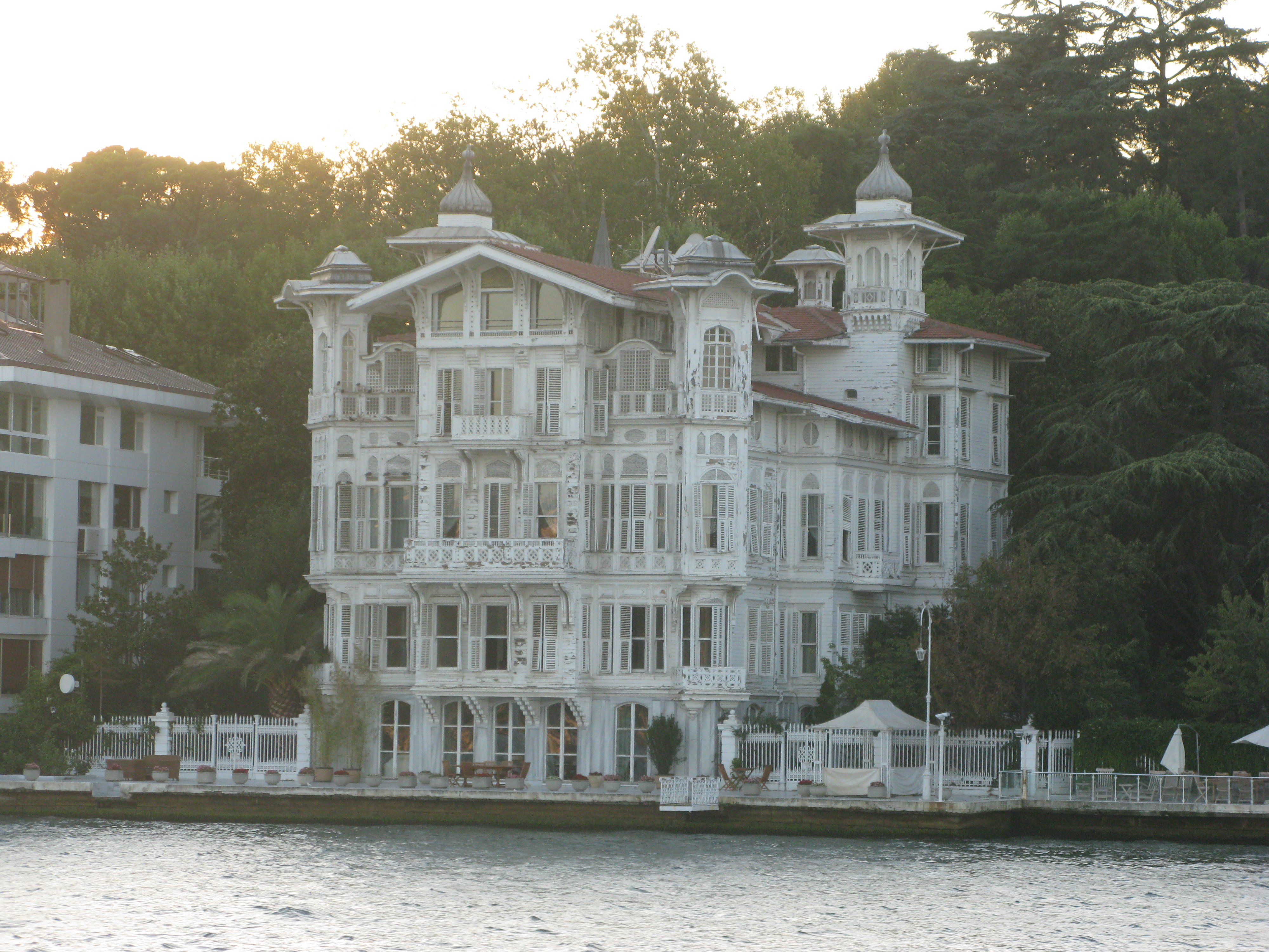 The yalı (waterfront house) of Afif Pasha (Afif Paşa Yalısı) at Yeniköy on the Bosphorus in Istanbul was designed by Alexander Vallaury.